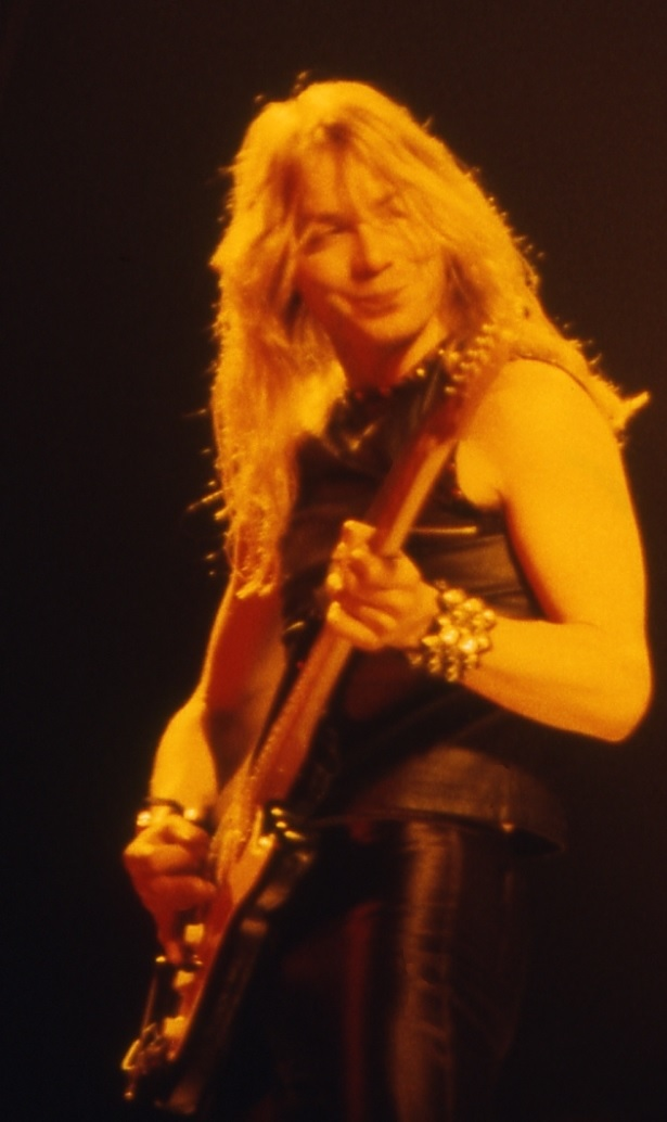 Dave Murray, guitarist of British heavy metal band Iron Maiden, performing in 1982 during the Beast on the Road tour.